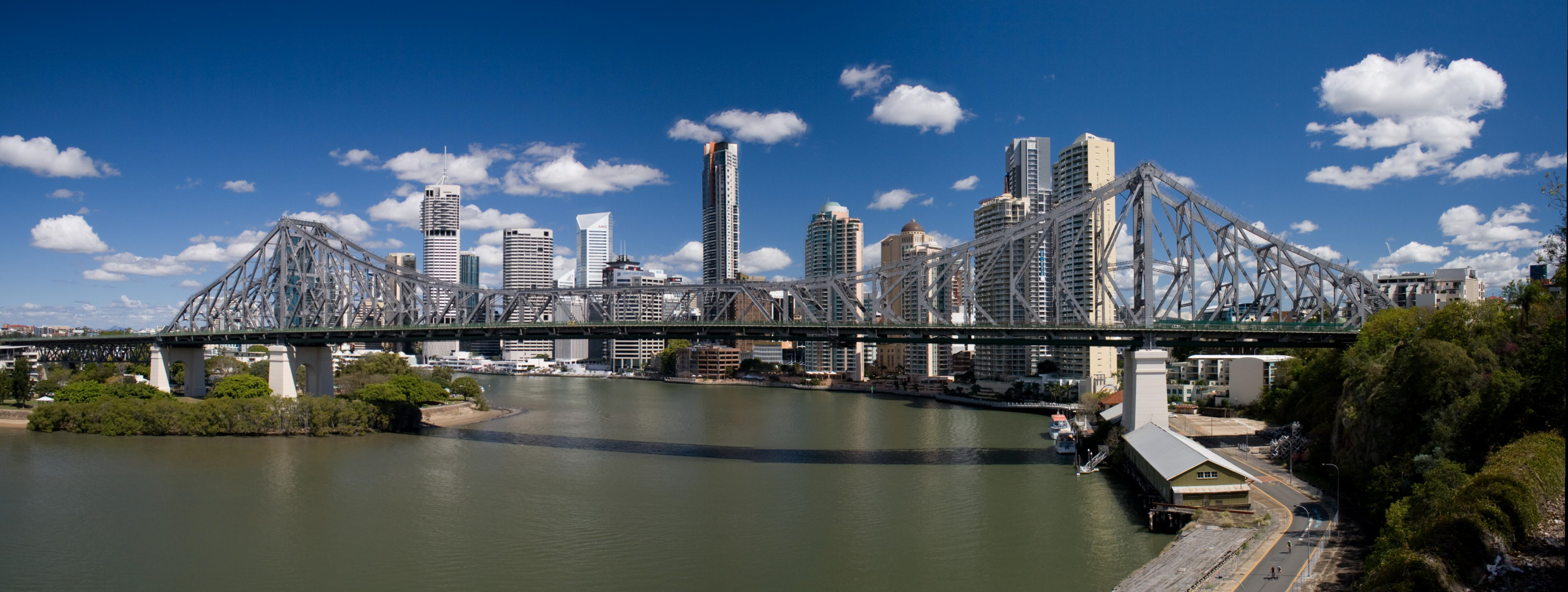 Story Bridge Panorama